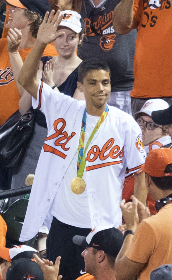 Matthew Centrowitz Jr.